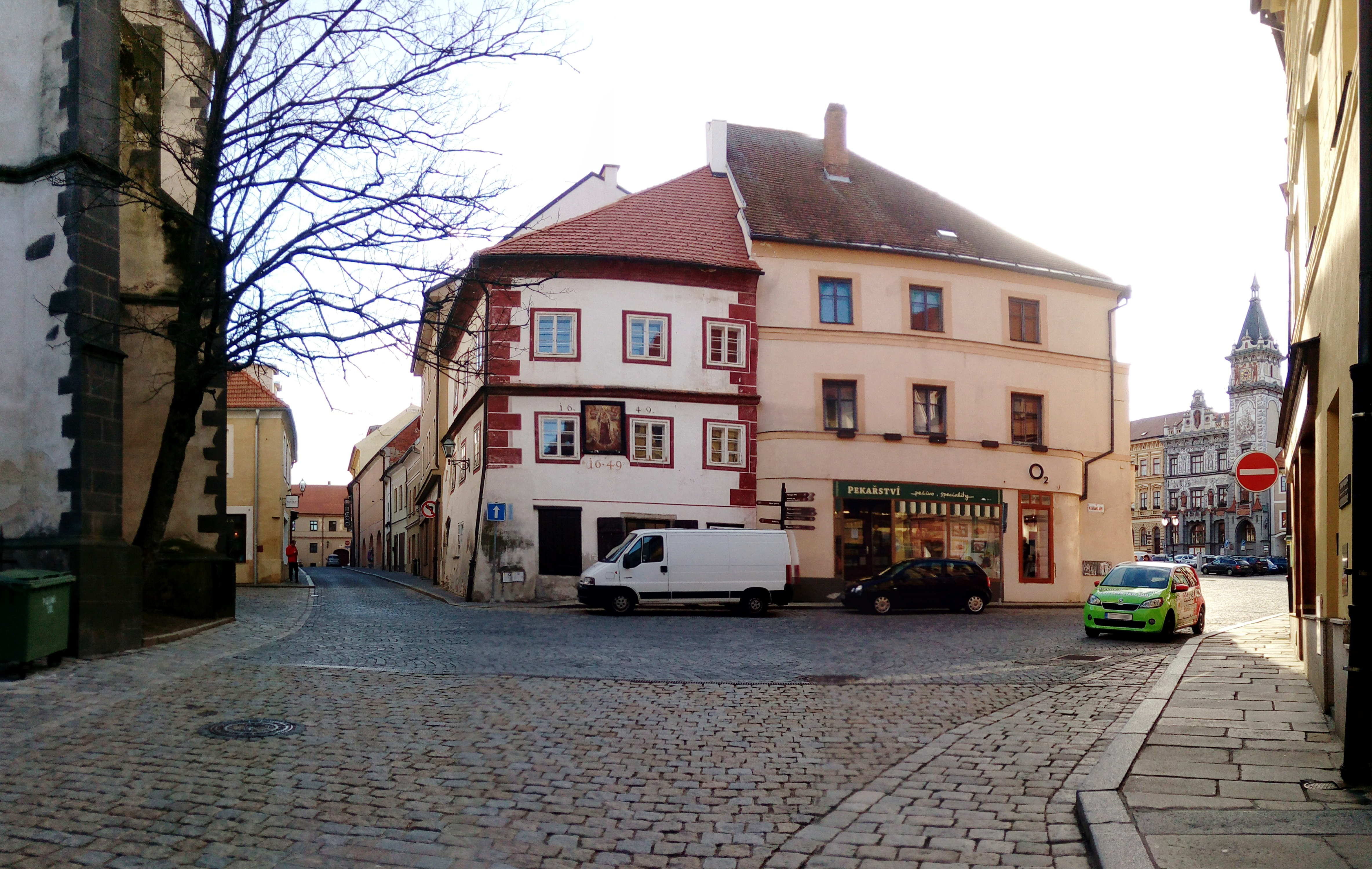 Kostelní náměstí (Church Square), Prachatice, south Bohemia, Czech Republic